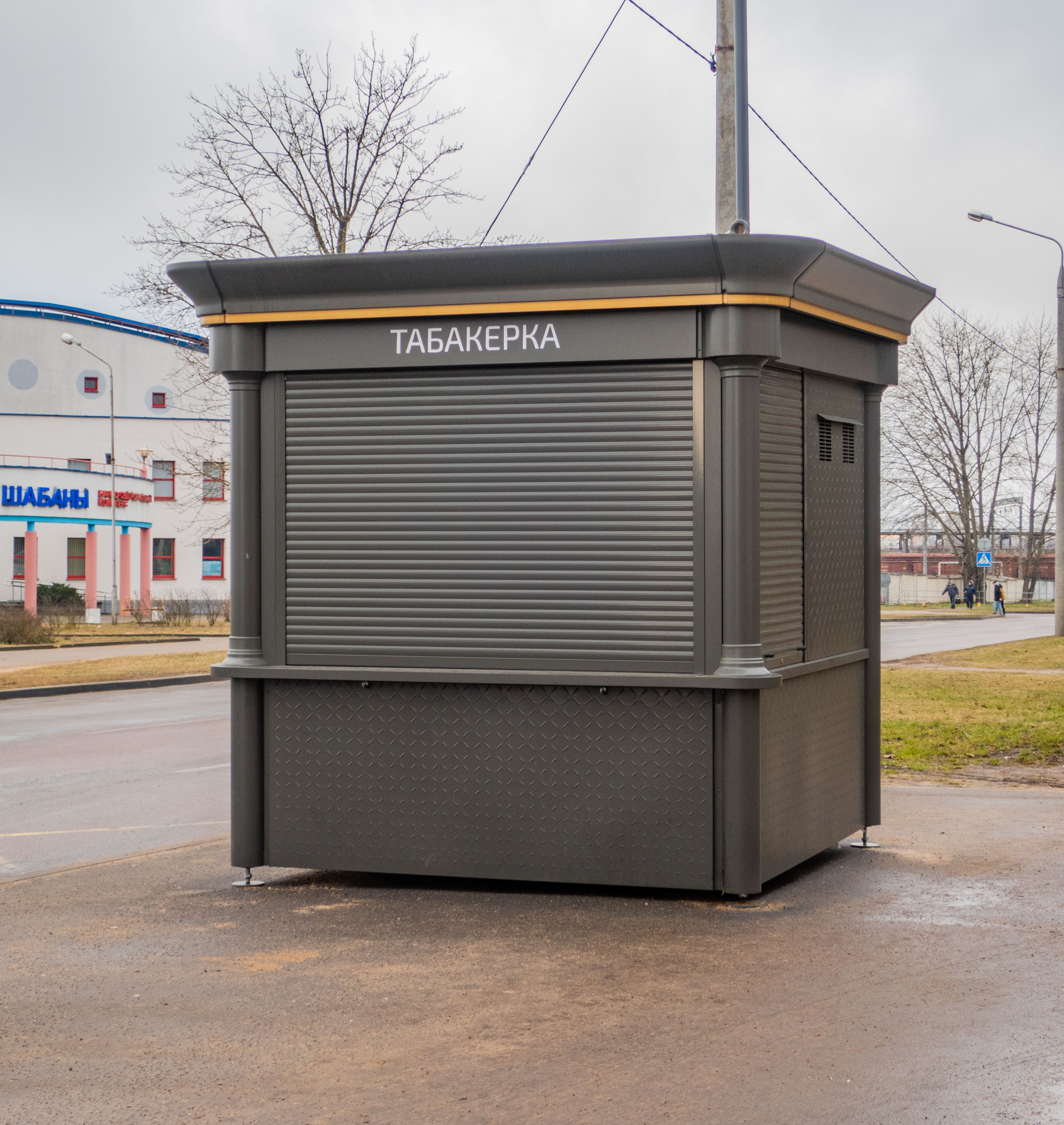 Tabakerka ('Snuffbox') kiosk. Minsk, Belarus